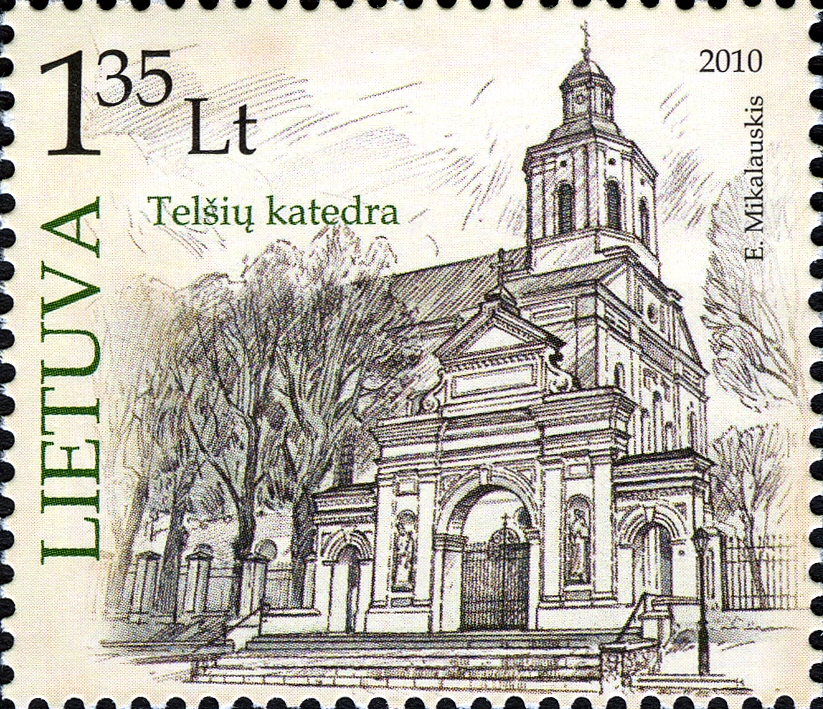 Stamps of Lithuania, 2010